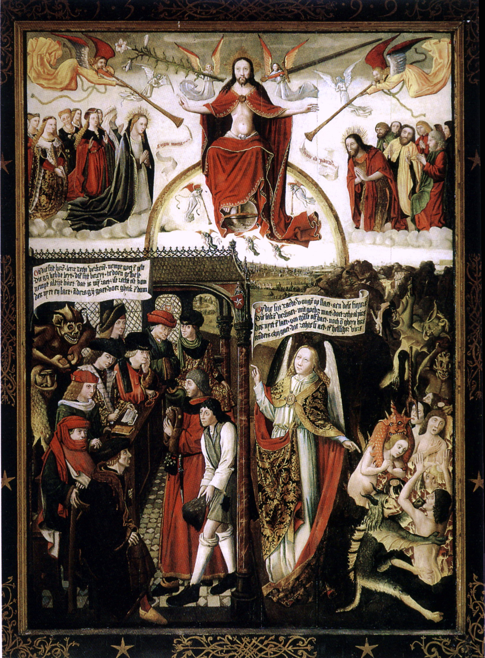 Jan van Brussel, Allegory on Justice, 1477 or 1499, in the antichambre of the former council meeting hall of the Maastricht town hall, Maastricht, the Netherlands.